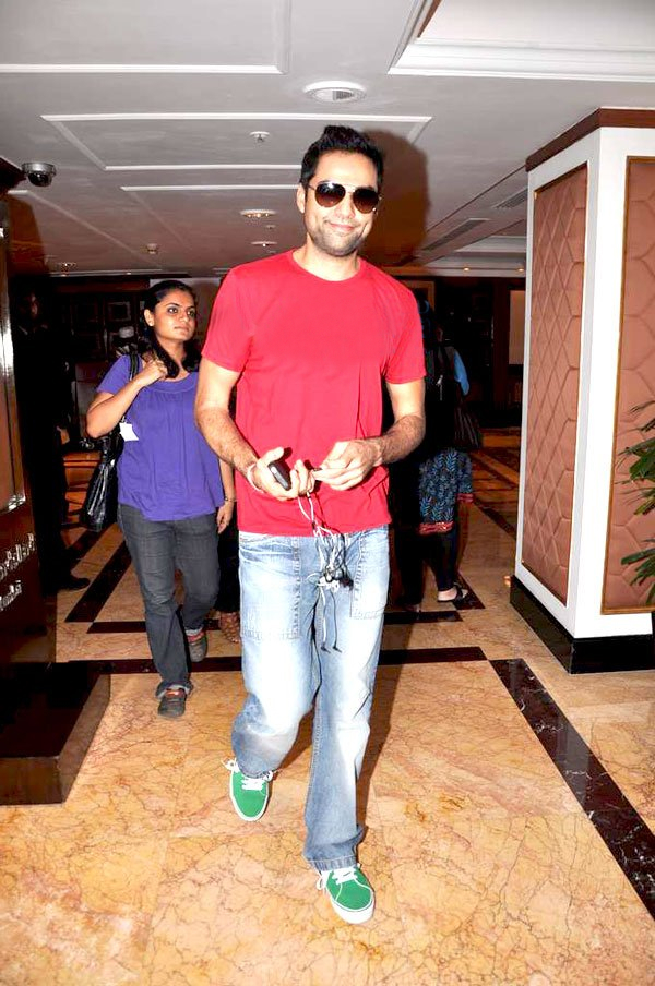 Abhay Deol promotes Zindagi Na Milegi Dobara at UTV event